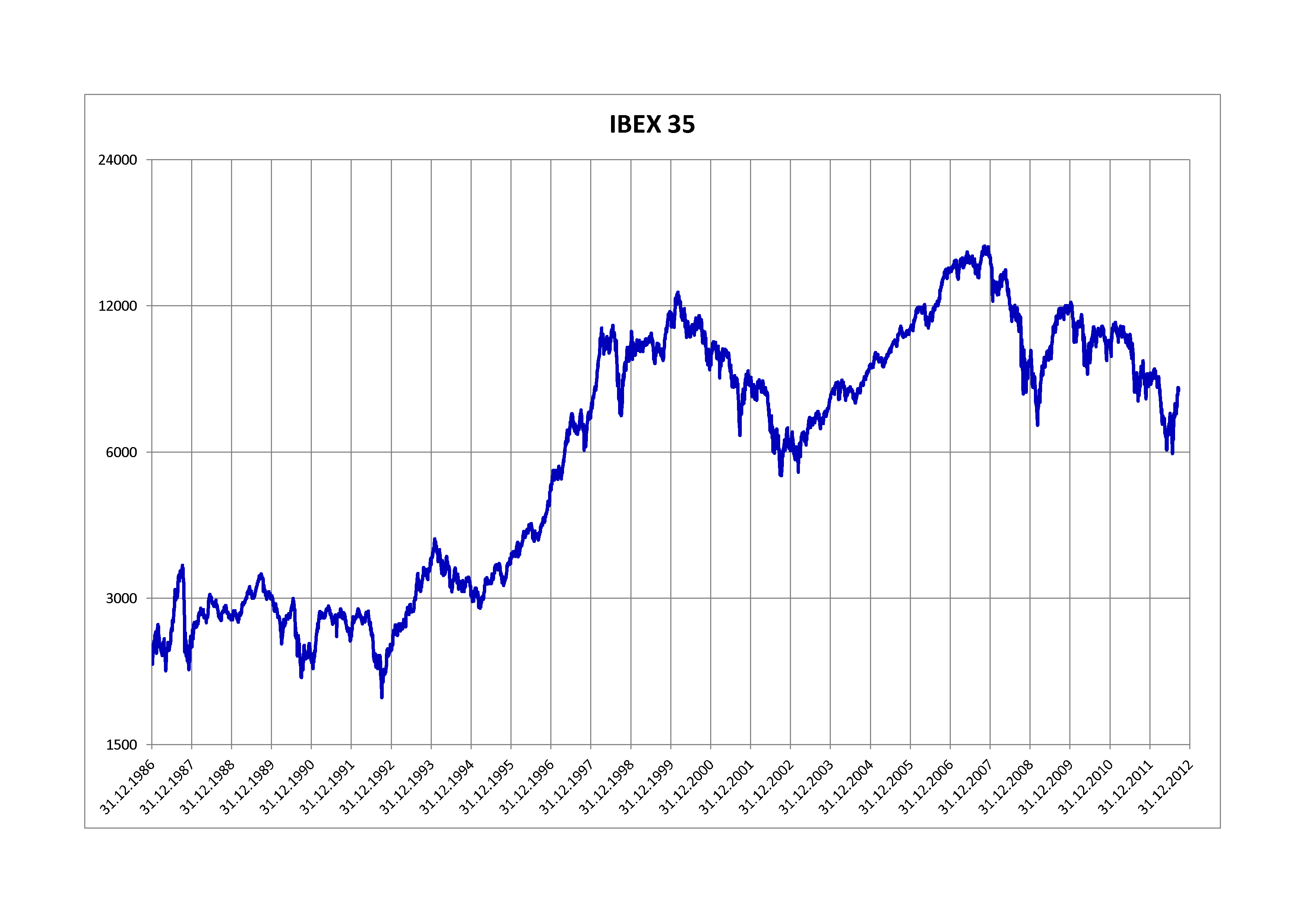 IBEX 35 from December 1986 to September 2012 (daily closings)